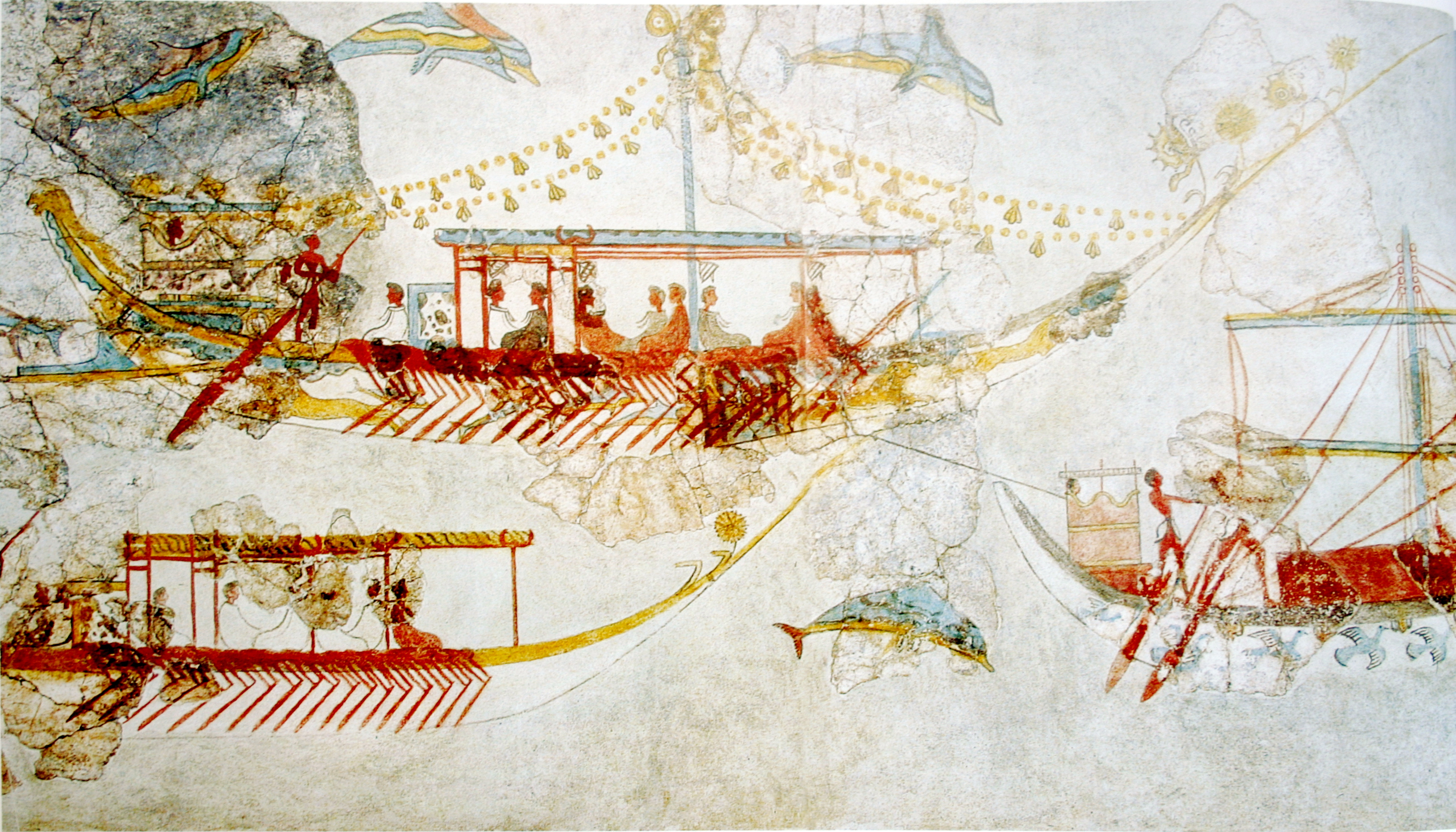 Ship procession fresco, part 3, Akrotiri, Greece.